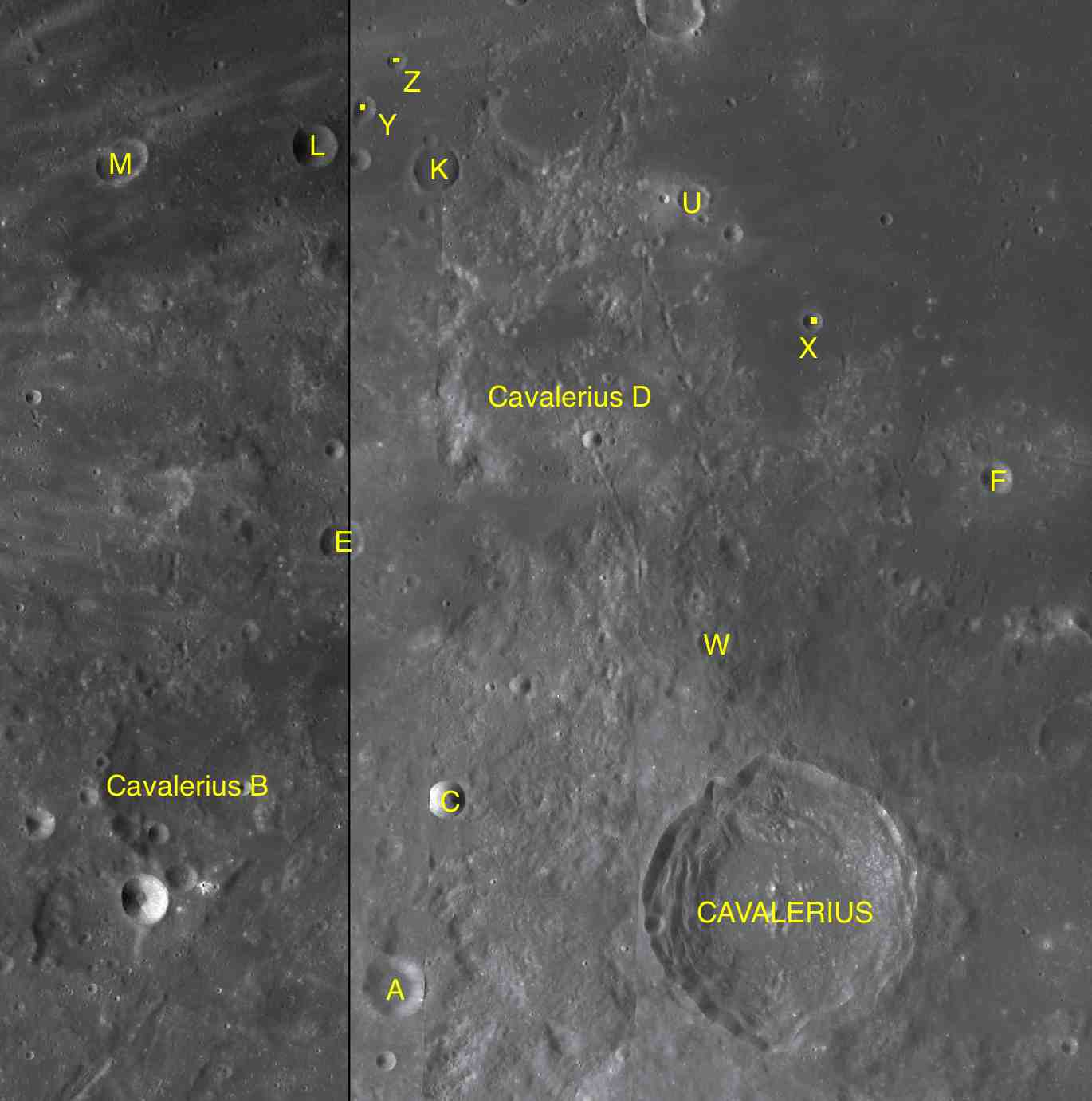 Parts of the charts LAC-55, LAC-56 used for the presentation